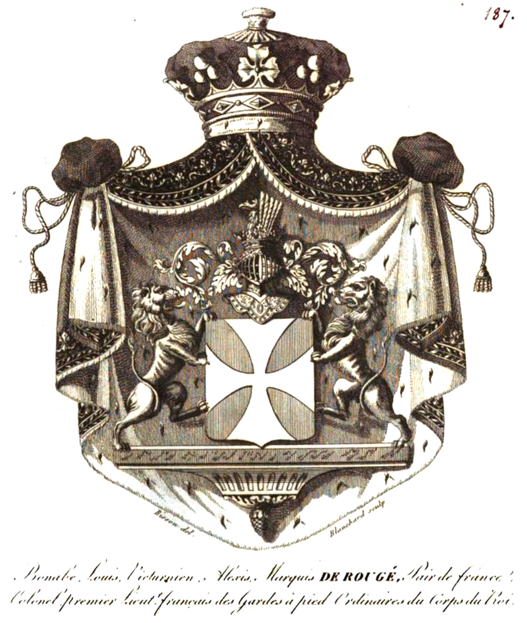 Armoiries de la famille de Rougé.